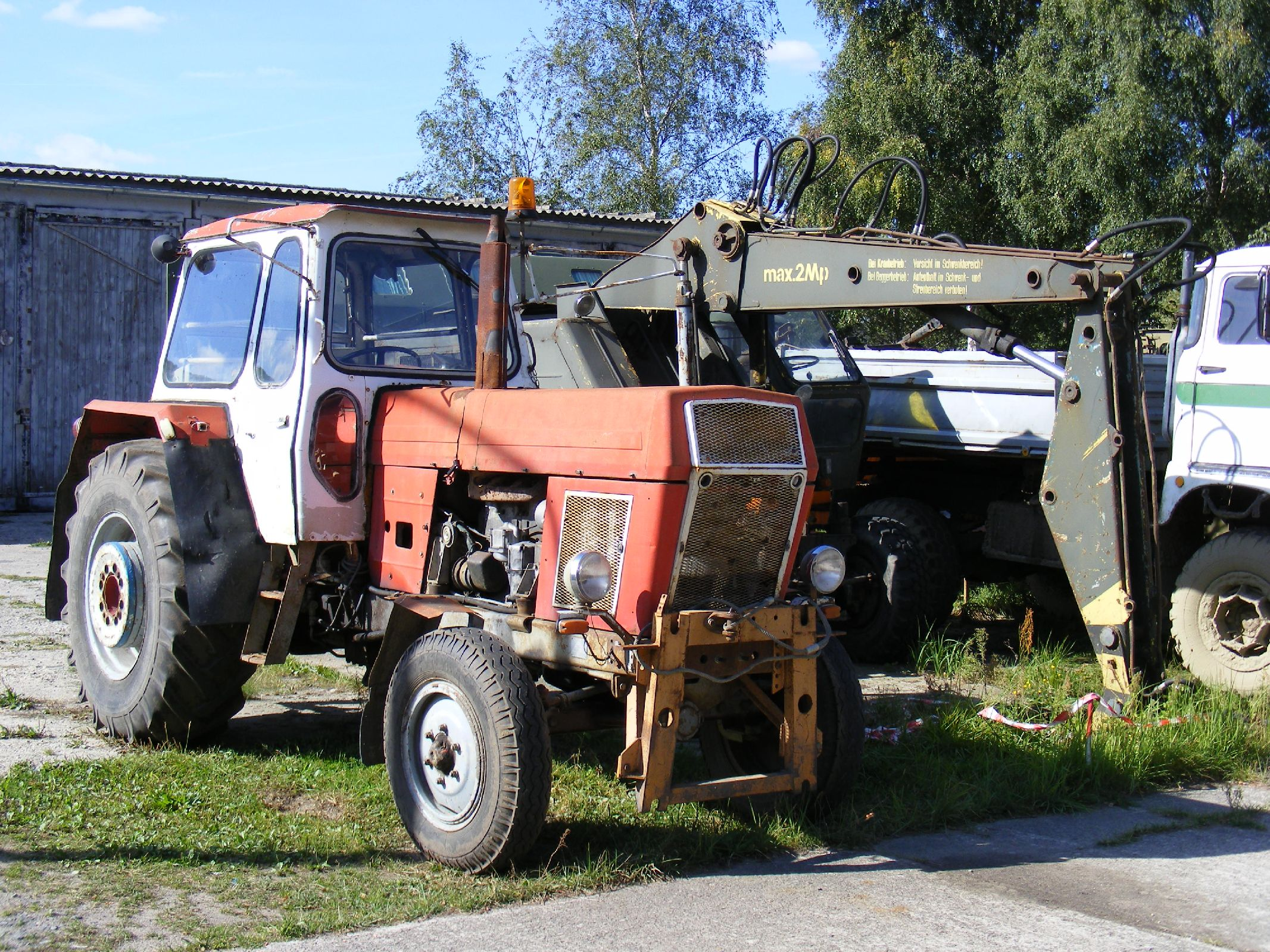 Ein Fortschritt Traktor ZT 300 im Technik-Museum Pütnitz.